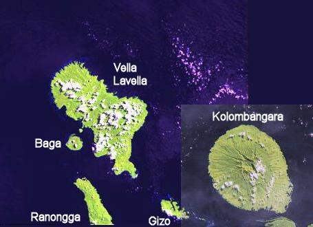 Landsat composite image of the northwestern New Georgia Islands: Kolombangara, Gizo, Vella Lavella, Baga, and Ranongga in the Soloman Islands, South Pacific, from LANSAT, ID = 4089066008917110 SceneStopTime = 1989:171:23:10:34.26406 20 June 1989 and ID = 7090066009925450 SceneCenterTime = 1999:254:23:35:58.8936228 11 September 1999